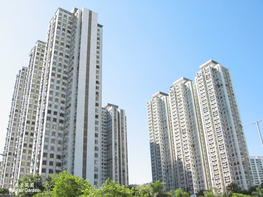 Mayfair Gardens, Tsing Yi, New Territories, Hong Kong